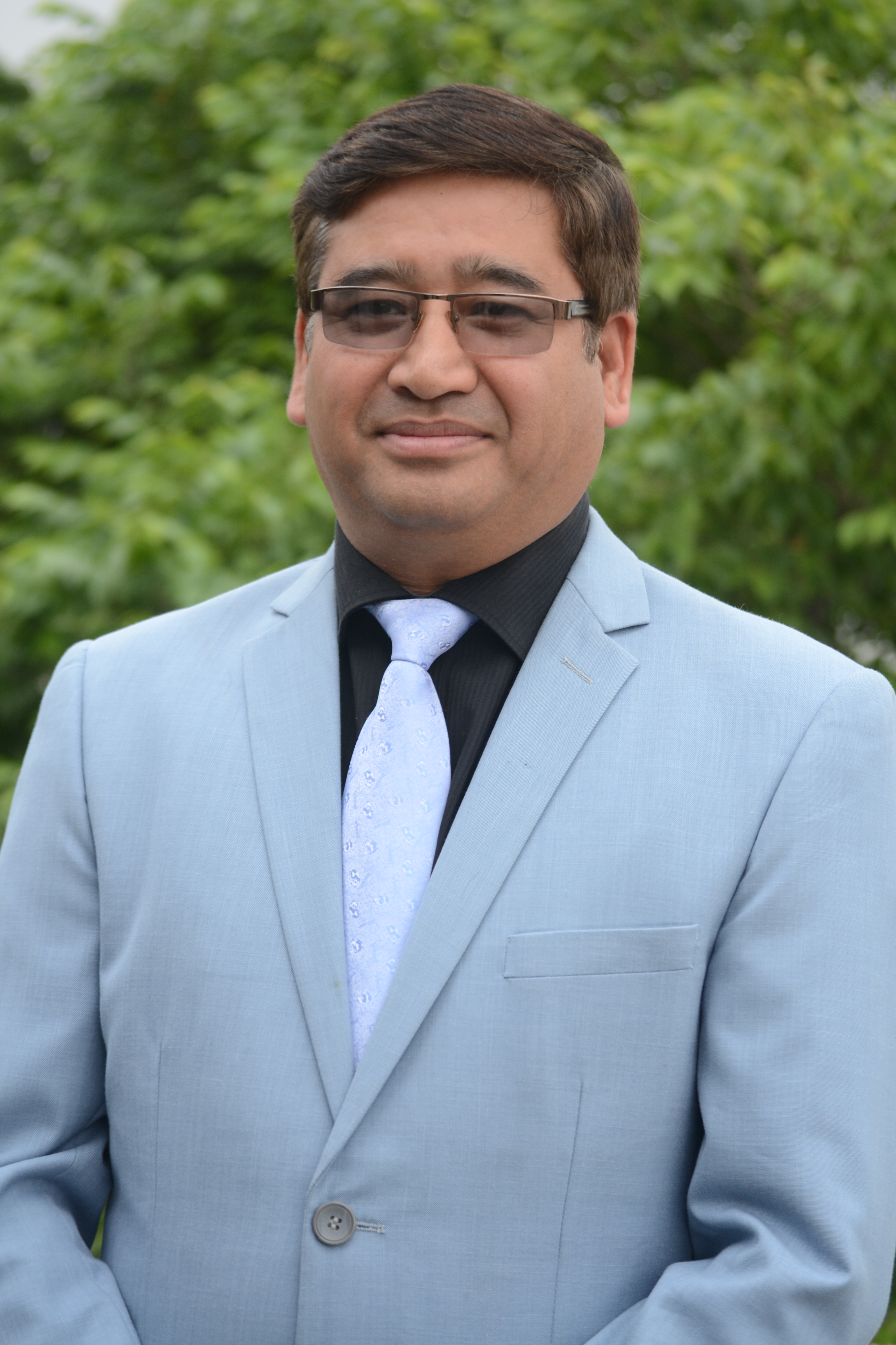 Jeevan ram shrestha posing for a photo in Kathmandu.